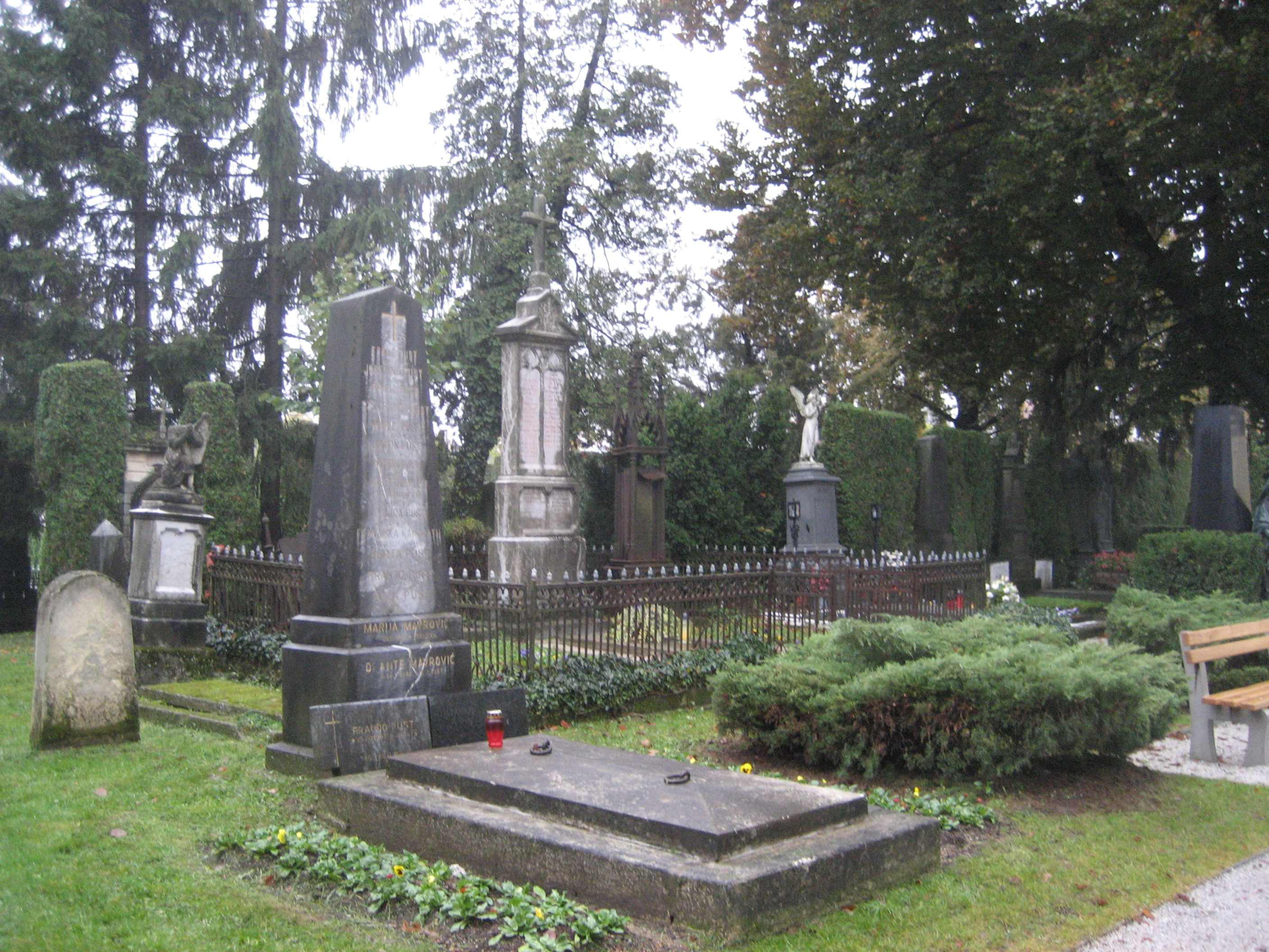 Cementry Varazdin3